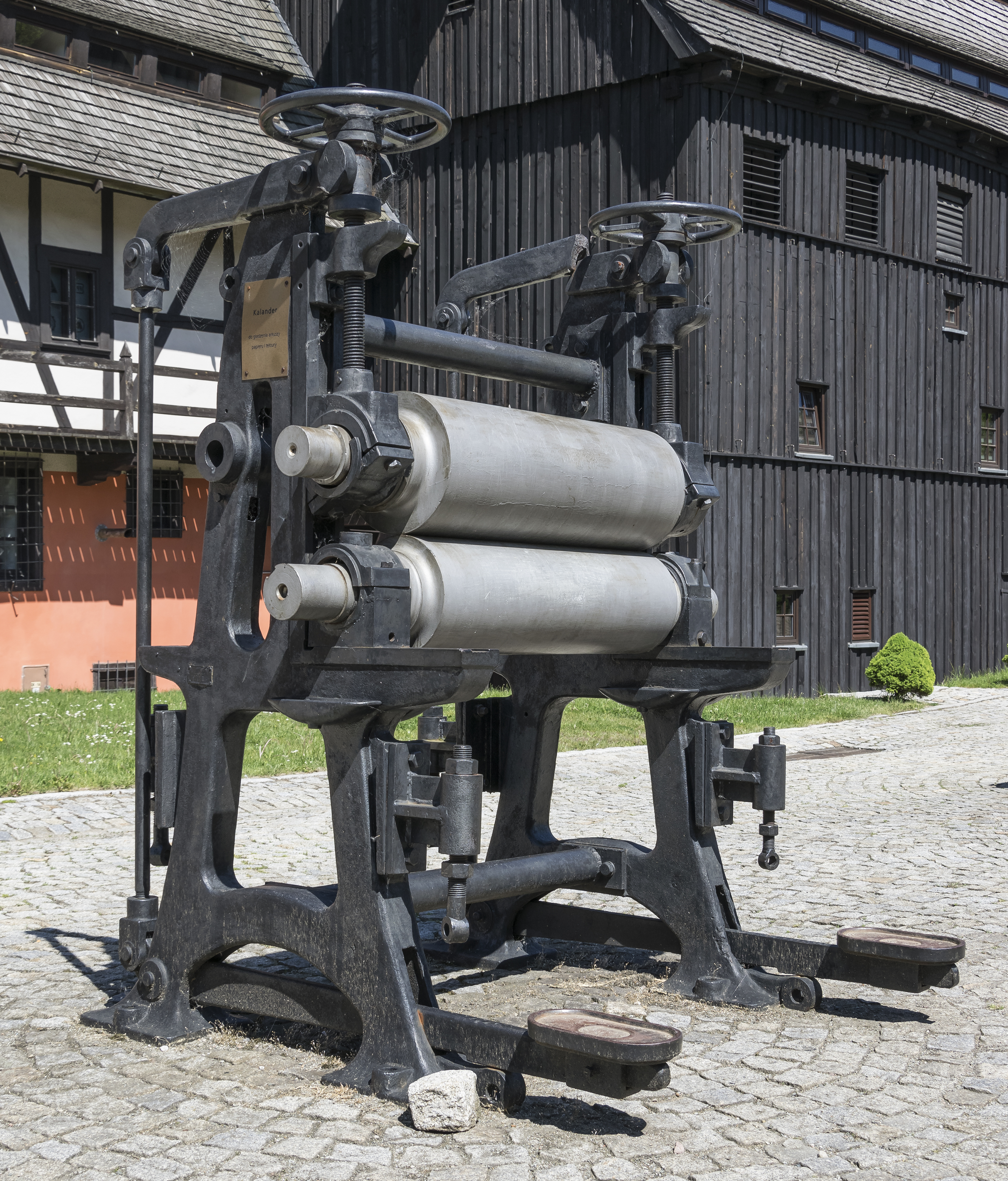 Museum of Papermaking in Duszniki-Zdrój, calender Ta fotografia przedstawia zabytek wpisany do rejestru zabytków pod numerem ID 741340